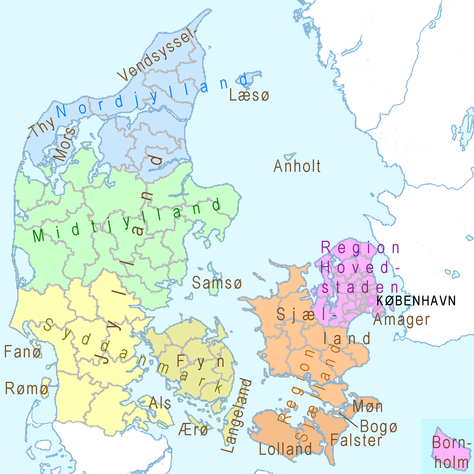 Map of Denmark, showing the natural devision into islands and the administrative division into regions